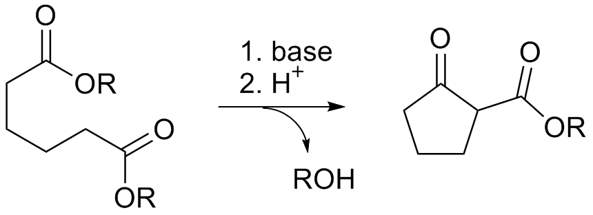 Dieckmann condensation